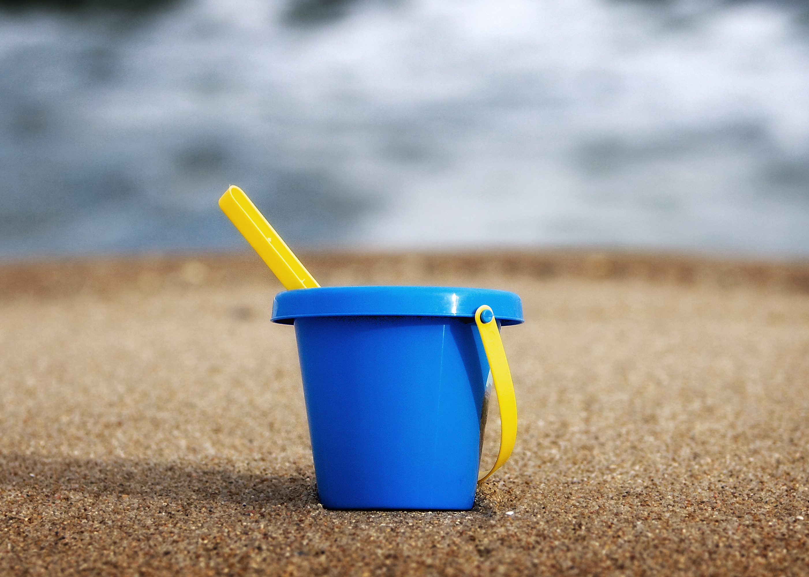 Sand bucket on the beach of Punta del Este, Uruguay